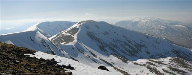 Coire na Coichille This view, taken from just SW of the summit of Geal-Charn, shows Coire na Coichille and the connecting ridge to Aonach Beag. Beinn Eibhinn is visible behind to the left, and in the distance on the right, the highest peak is Ben Nevis.